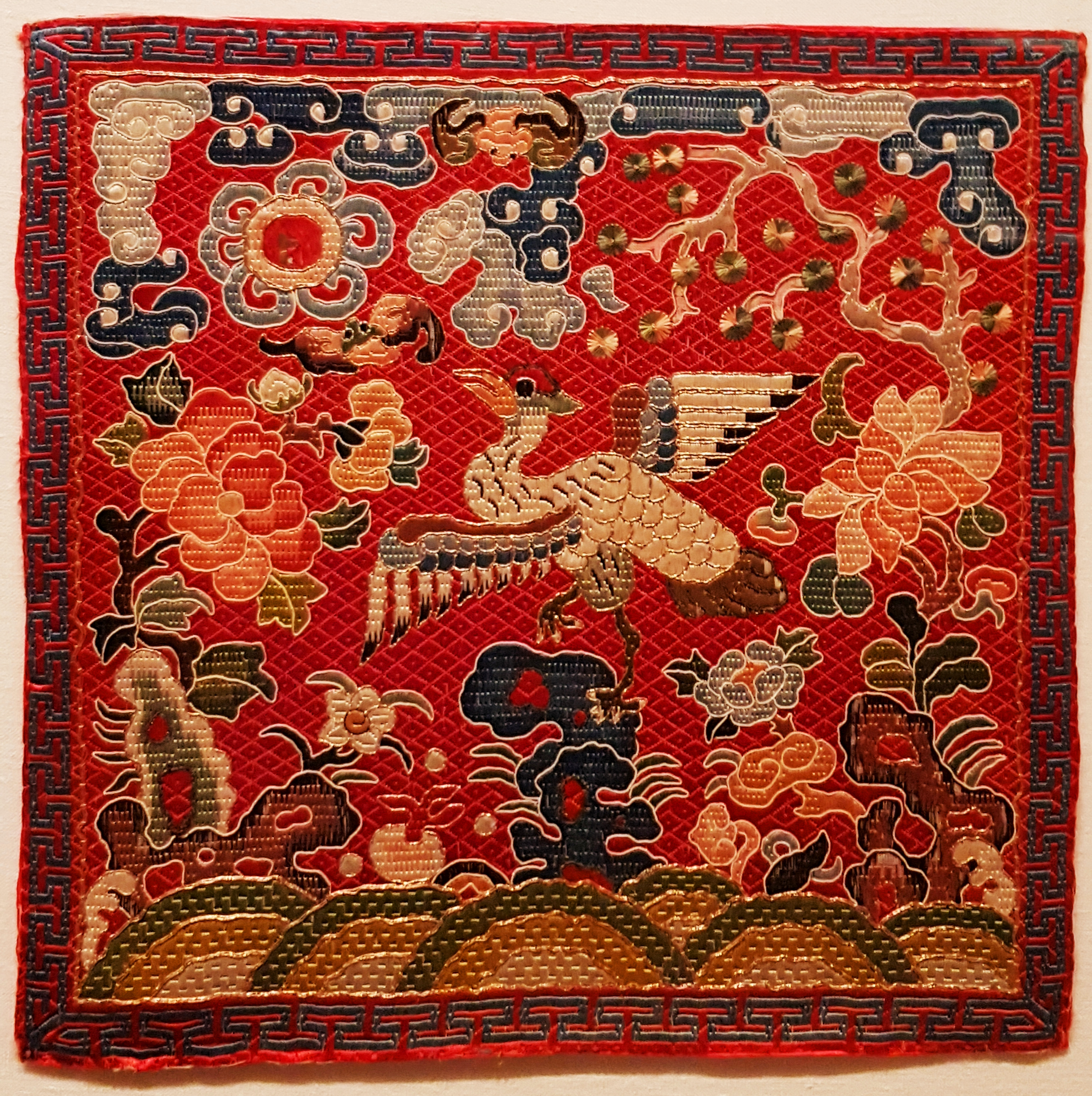 Rank badge for a Annamese (in today's Vietnam) civilian official in the eighth rank, displaying a mandarin duck. Silk, embroidery.